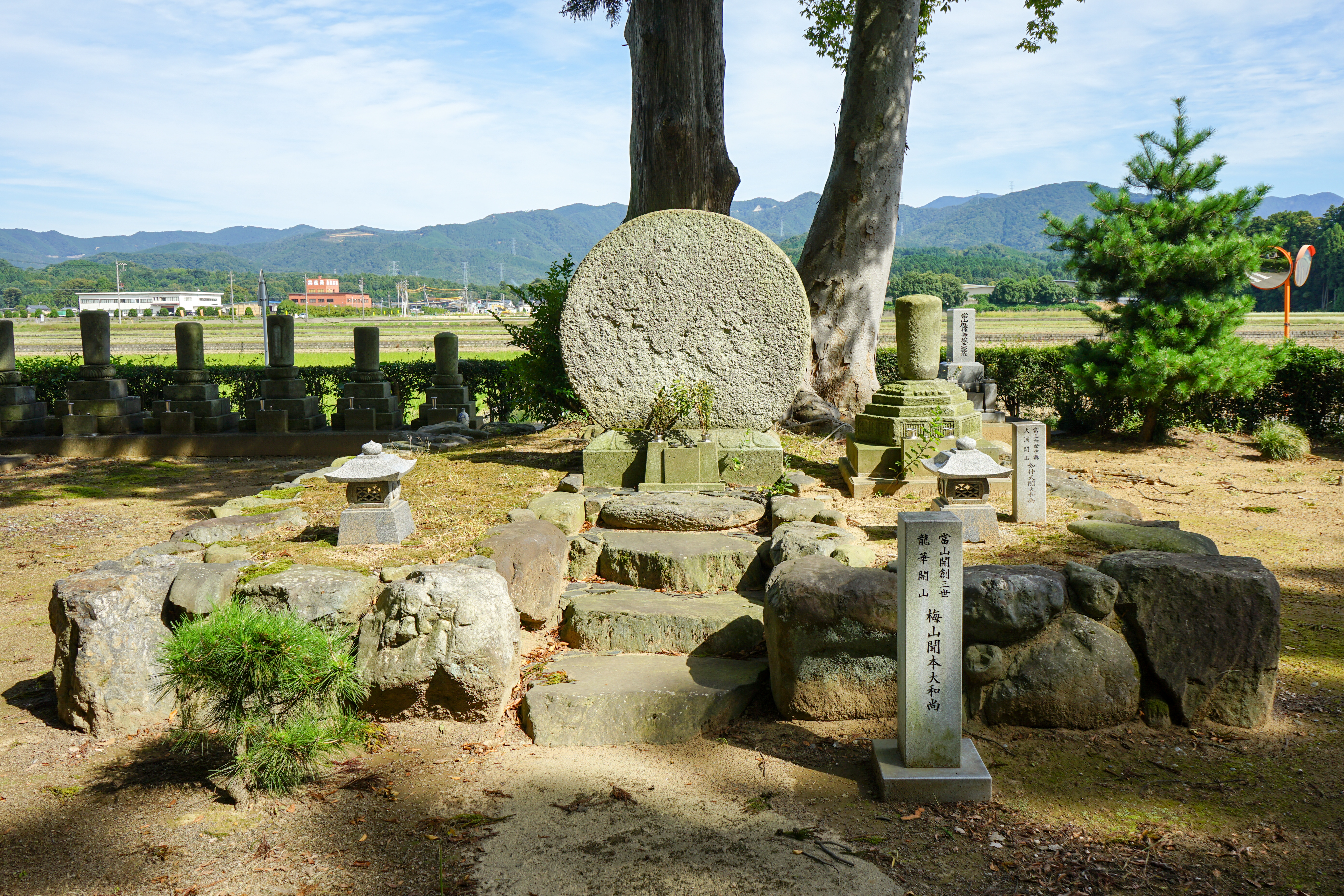 Tomb of Baisan Monpon (Japanese zen monk, died 1417), Misunoo, Awara-shi, Fukui Pref., Japan